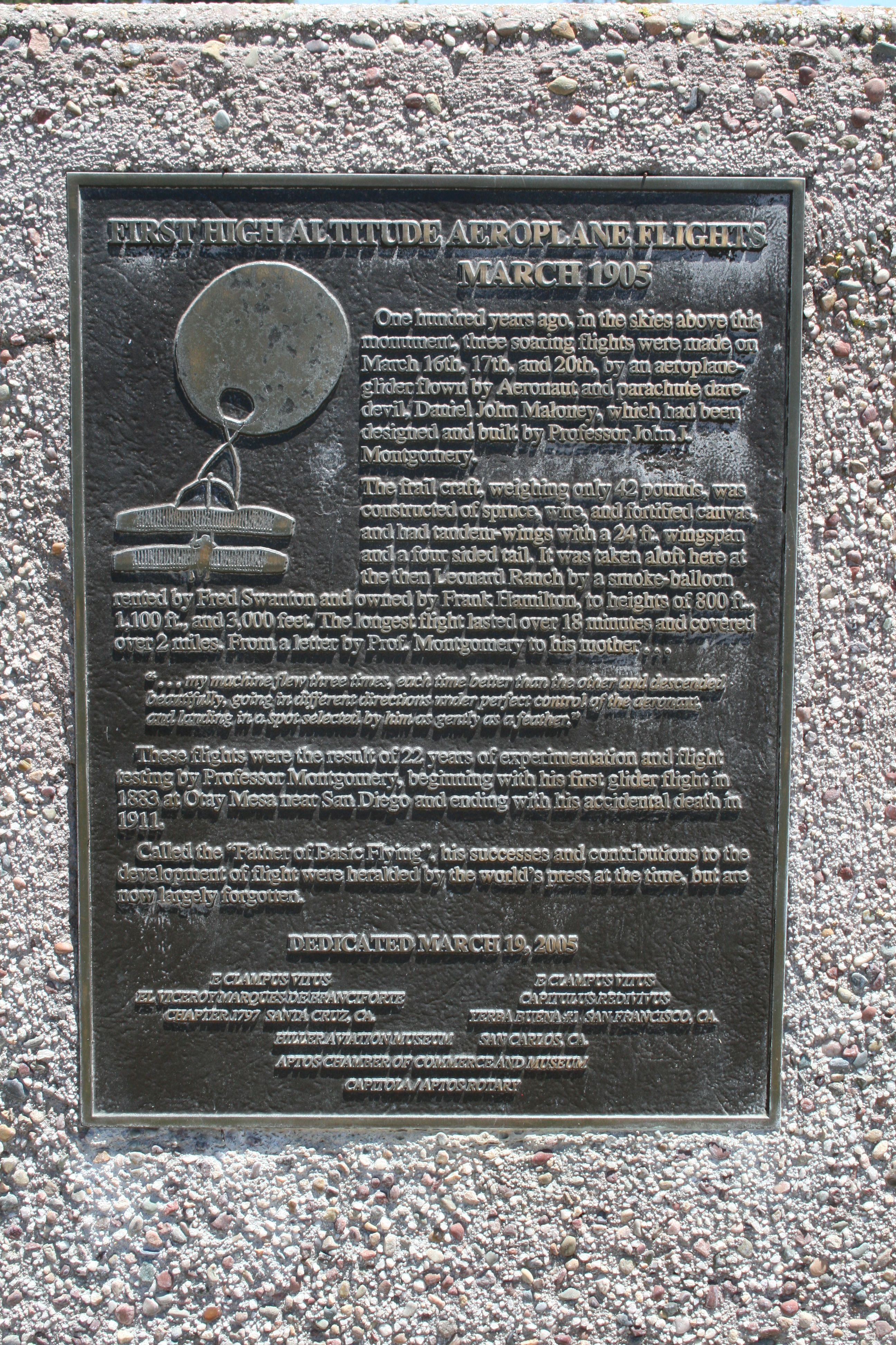 A marker placed at Aptos, California where Montgomery's gliders were flown in March 1905 for the first high-altitude flights in the world. Transcript below: FIRST HIGH ALTITUDE AEROPLANE FLIGHTS MARCH 1905 One hundred years ago, in the skies above this monument, three soaring flights were made on March 16th, 17th, and 20th, by an aeroplane- glider flown by Aeronaut and parachute dare- devil, Daniel John Maloney, which had been designed and built by Professor John J. Montgomery. The frail craft, weighing only 42 pounds, was constructed of spruce, wire, and fortified canvas, and had tandem-wings with a 24 ft. wingspan and a four sided tail. It was taken aloft here at the then Leonard Ranch by a smoke-balloon rented by Fred Swanton and owned by Frank Hamilton, to heights of 800 ft., 1,100 ft., and 3,000 feet. The longest flight lasted over 18 minutes and covered over 2 miles. From a letter by Prof. Montgomery to his mother... "...my machine flew three times, each time better than the other and descended beautifully, going in different directions under perfect control of the aeronaut, and landing in a spot selected by him as gently as a feather." These flights were the result of 22 years of experimentation and flight testing by Professor Montgomery, beginning with his first glider flight in 1883 at Otay Mesa near San Diego and ending with his accidental death in 1911. Called the "Father of Basic Flying", his successes and contributions to the development of flight were heralded by the world's press at the time, but are now largely forgotten. DEDICATED MARCH 19, 2005 E CLAMPUS VITUS EL VICEROY MARQUES DE BRANCIFORTE CHAPTER 1797 SANTA CRUZ, CA. E CLAMPUS VITUS CAPITULUS REDIVIVUS YERBA BUENA #1 SAN FRANCISCO, CA. HILLER AVIATION MUSEUM SAN CARLOS, CA. APTOS CHAMBER OF COMMERCE AND MUSEUM CAPITOLA/APTOS ROTARY